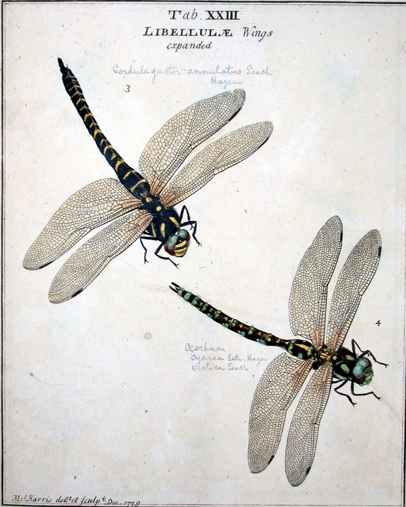 Dragonflies Plate XXIII, "An exposition of English insects ... minutely described, arranged, and named, according to the Linnaean system" London: 1782. Males of Aeshna cyanaea and Cordulegaster boltonii.